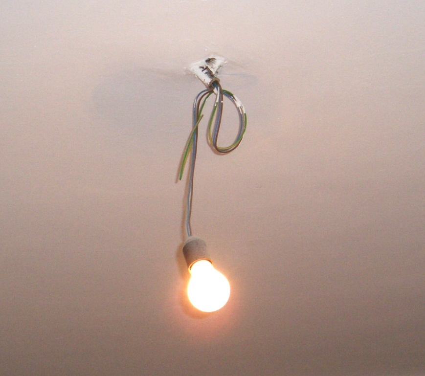 Temporary light fixture in a freshly painted room. To reach the whole ceiling and to avoid blotting or breaking a lamp one uses a simple lampholder. The opak light bulb (2011 is pre LED-bulb-age) gives uniform illumination für painting work. The long wires and the protuding tube indicate a fresh electrical installation. Dialect expression: Russian luster.